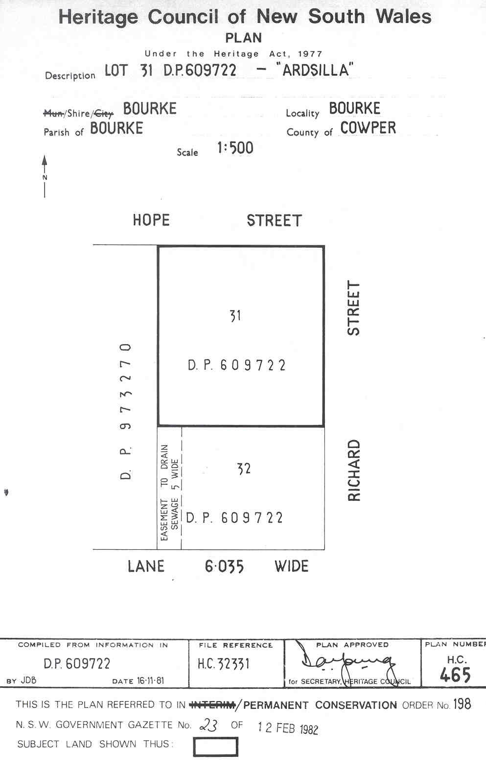 Ardsilla: PCO Plan Number 198